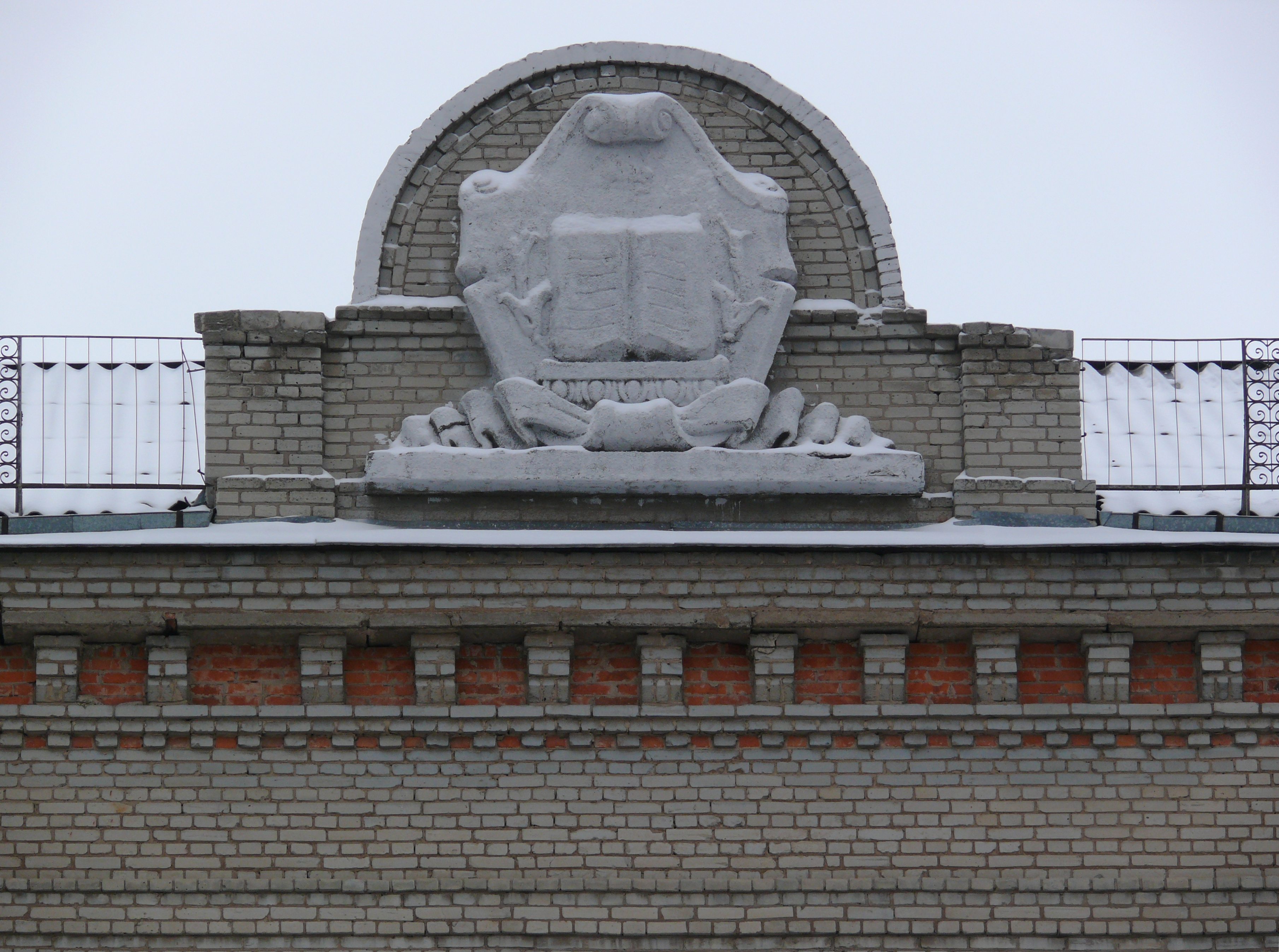 Kharkov. 116 school emblem on his fronton: book in the roof.